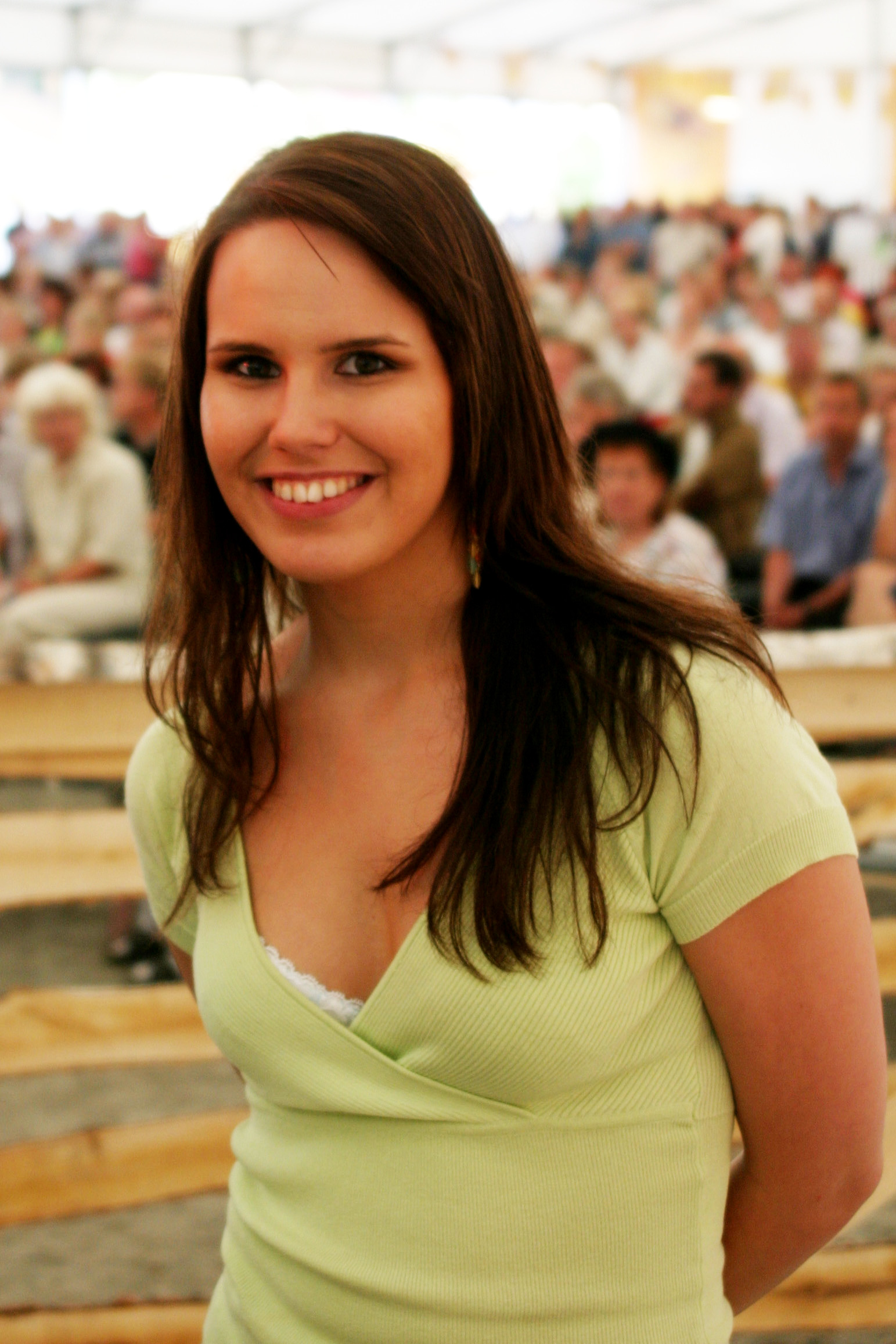 Anne Mattila in Vihreät Niityt music festival in the summer 2005.